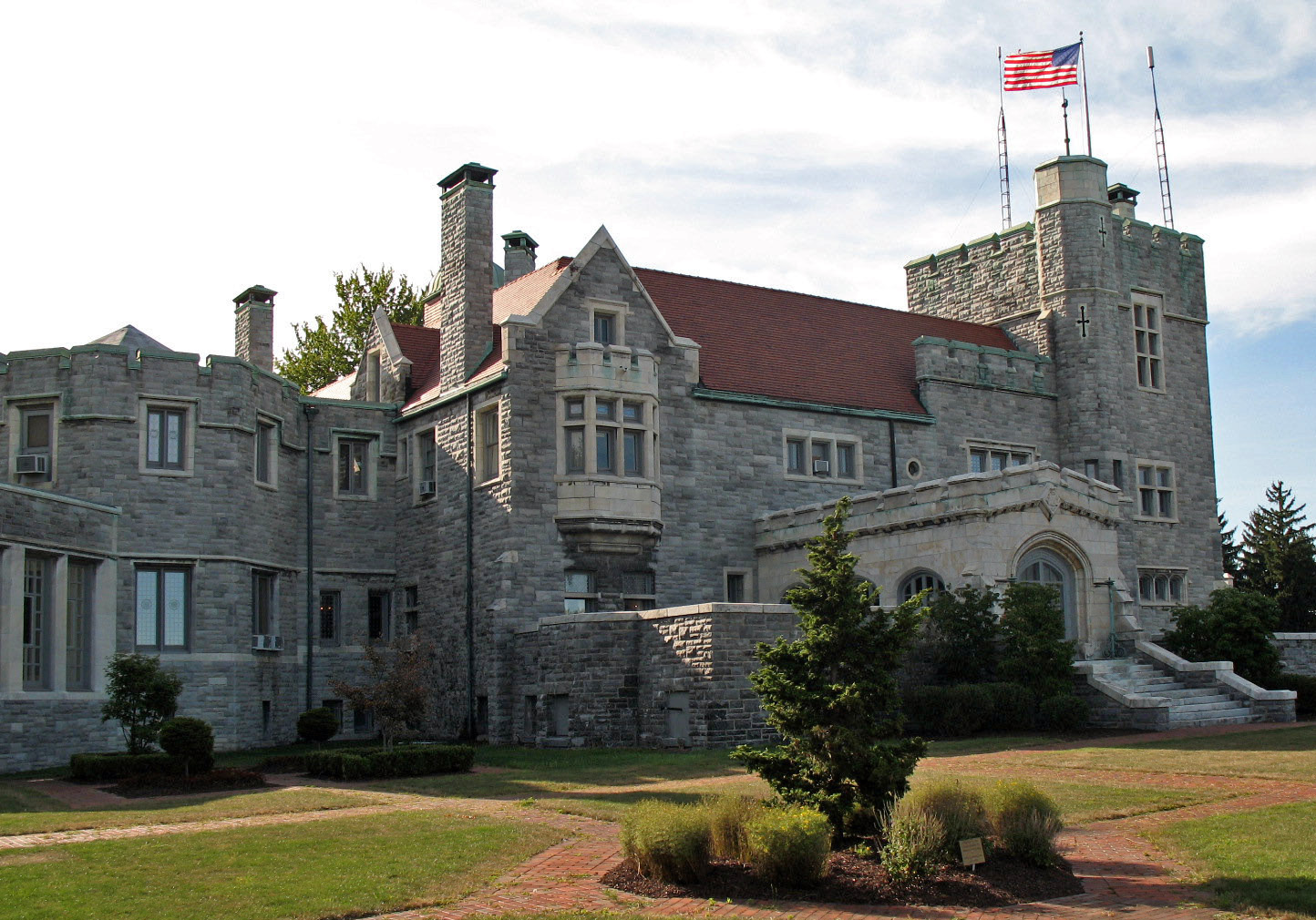 Registered Historic Places in Stark County, Ohio. Glamorgan Castle, 1025 South Union Ave, Alliance, Ohio, USA. Photographed 2008-08-25 from the grounds to the southeast of the building.